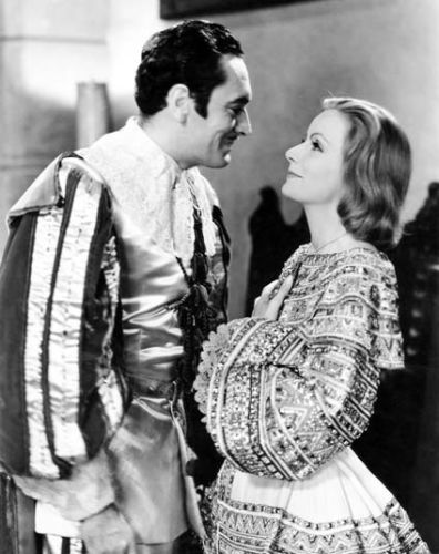 Photo of John Gilbert and Greta Garbo from the film Queen Christina (1933). See also film still. No copyright notice.